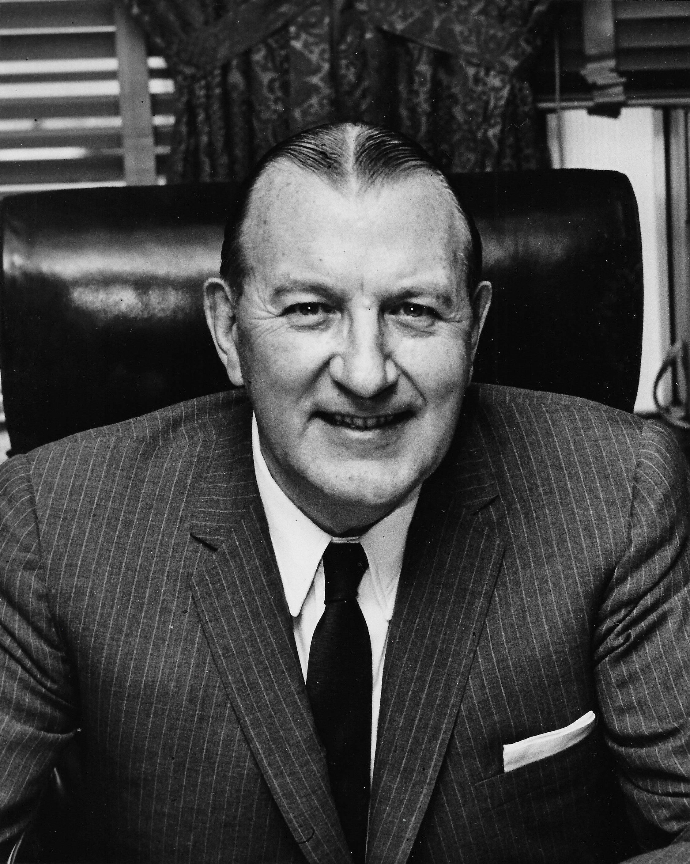 This is a photo of State Senator Frank S. "Hap" Farley taken in his law office at Suite 503, Schwehm Building, 1 South New York Avenue, Atlantic City, New Jersey. Photographed by Sandpiper Studios, Inc.